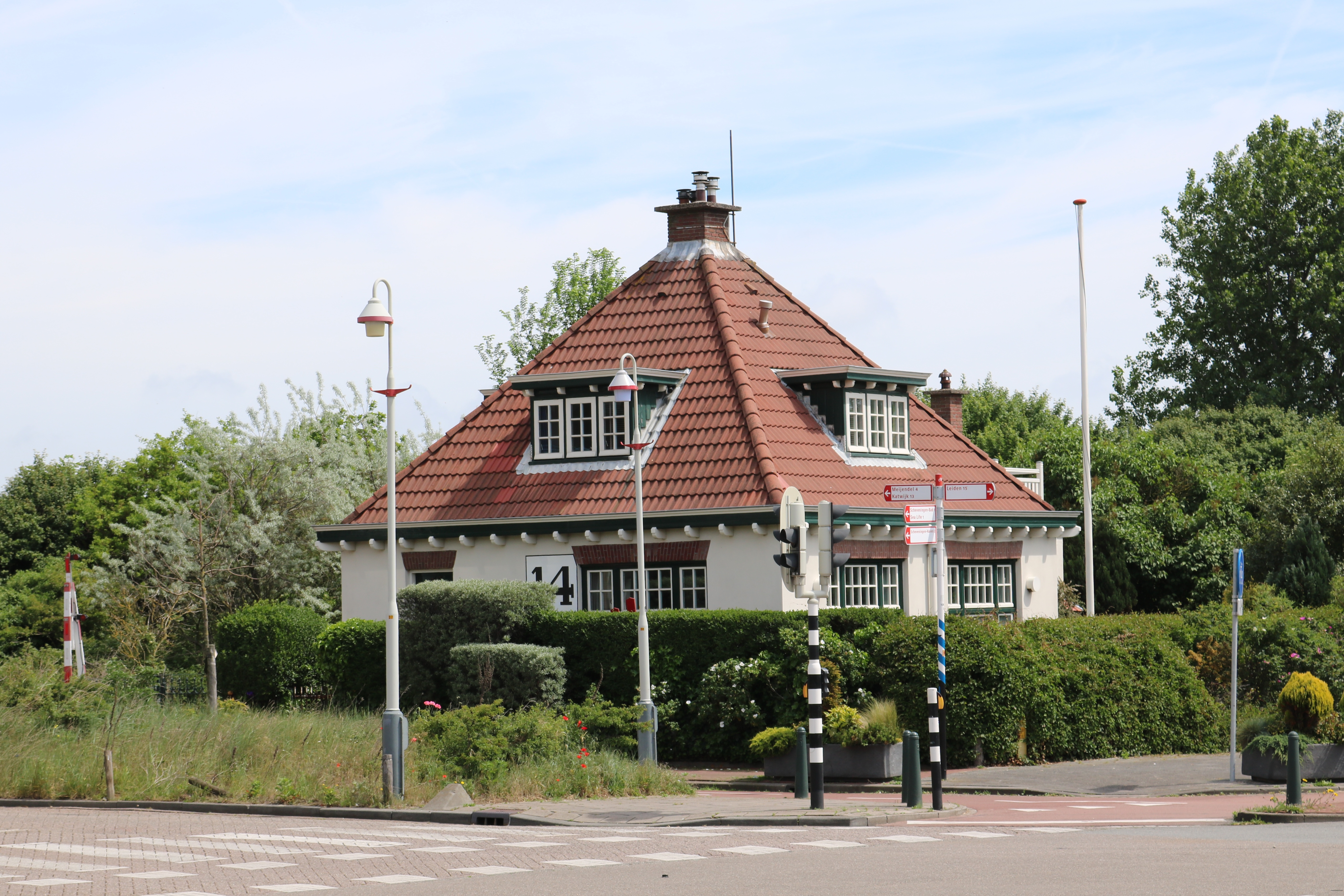 railroad house Scheveningen